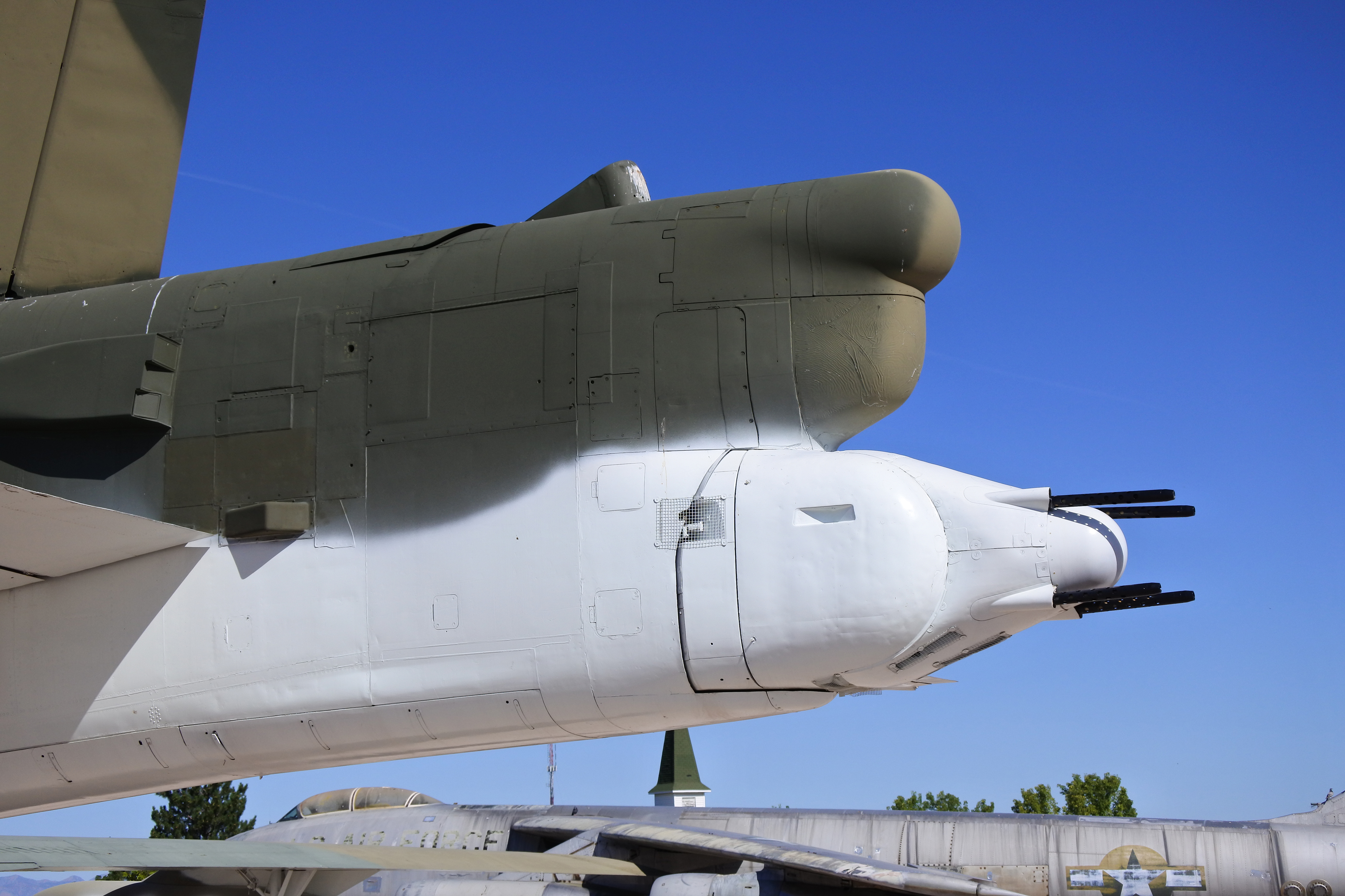 Tail armament of a B-52G, Hill Aerospace Museum.